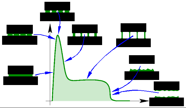 Typical probetack traction curve (force as a function of displacement) with corresponding states of the adhesive film.